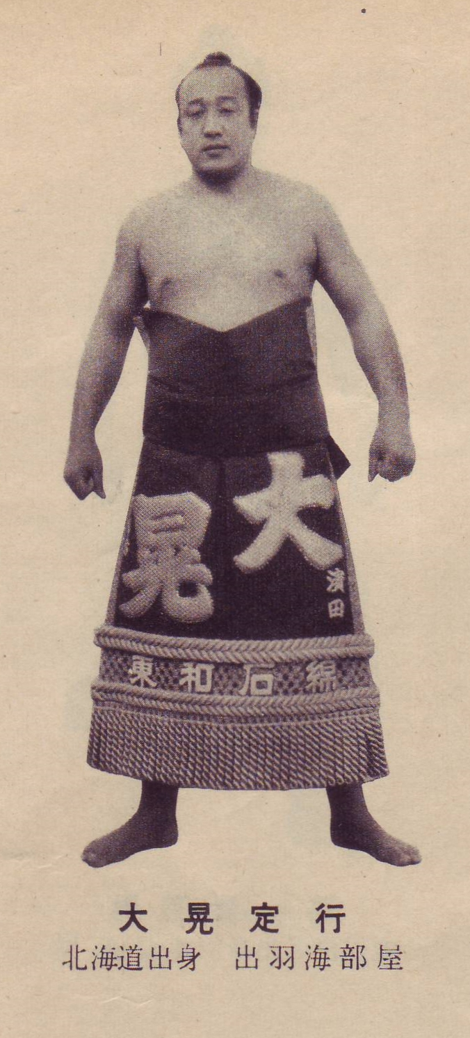 Ōhikari Sadayuki (Sumo wrestler. Komusubi). taken in 1958, or before that.